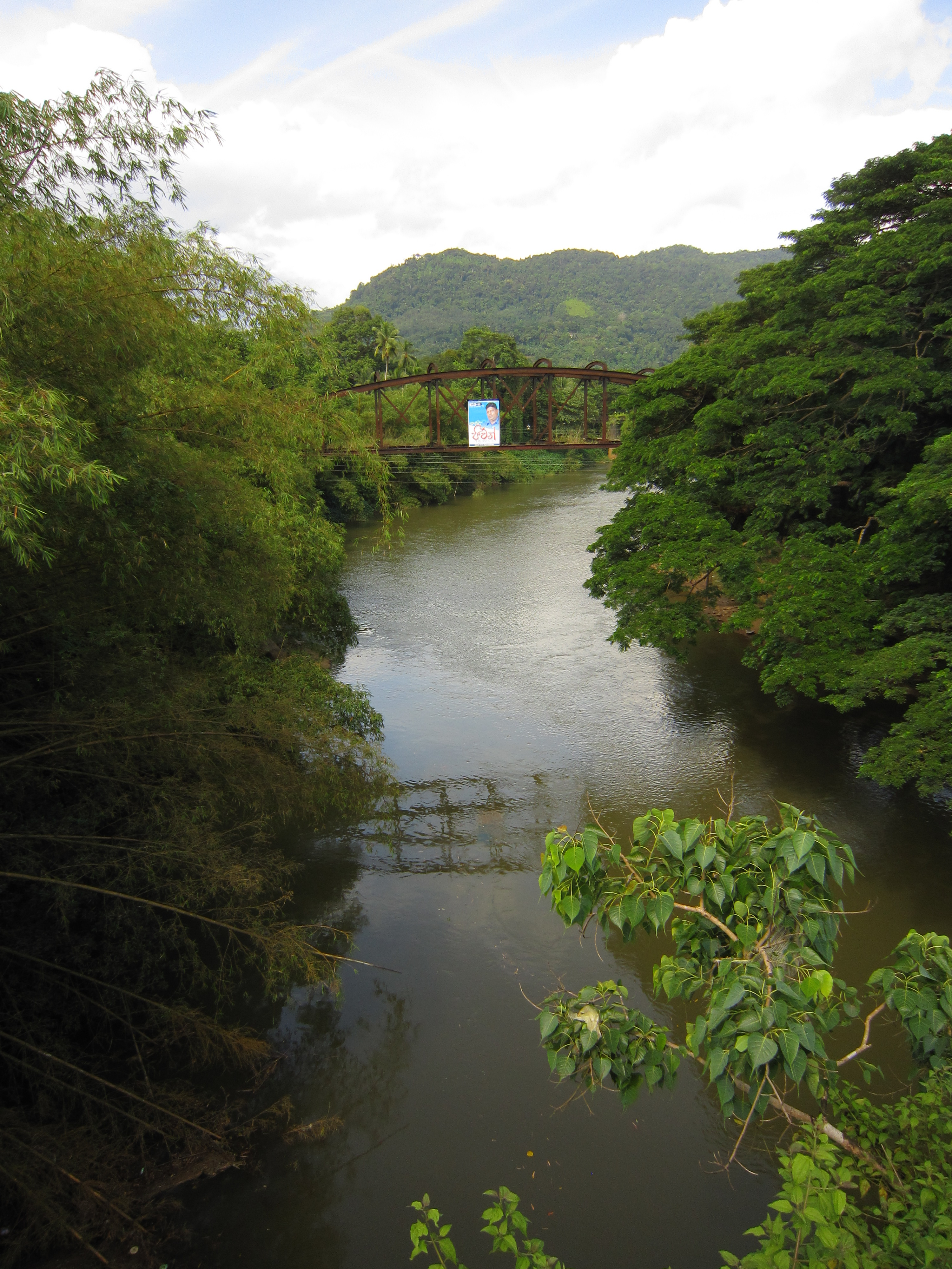 River Kalu in Ratnapura (up stream)